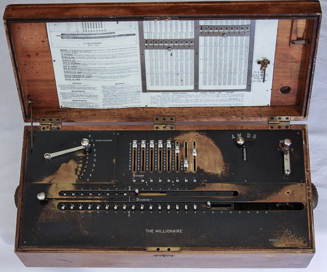 Top view of a Millionaire Calculator from Egli Switzerland